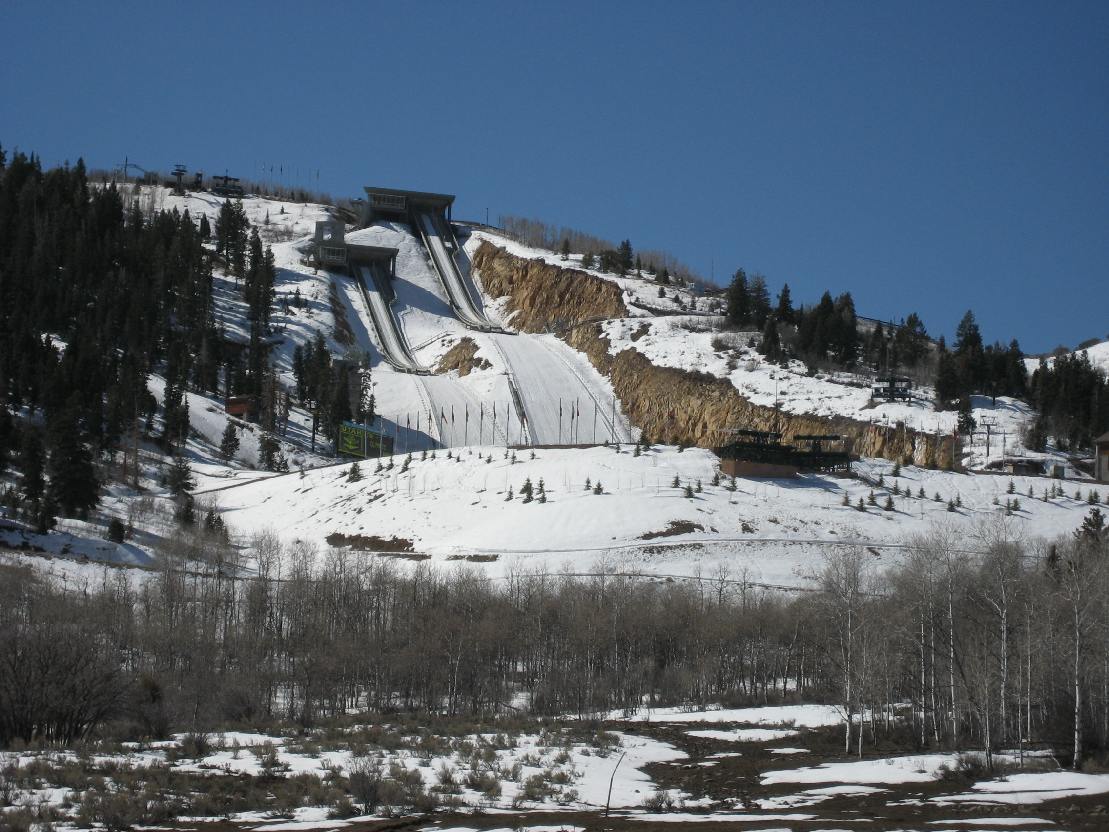 Taken by Teddy Yoshida on 3/18/2007.